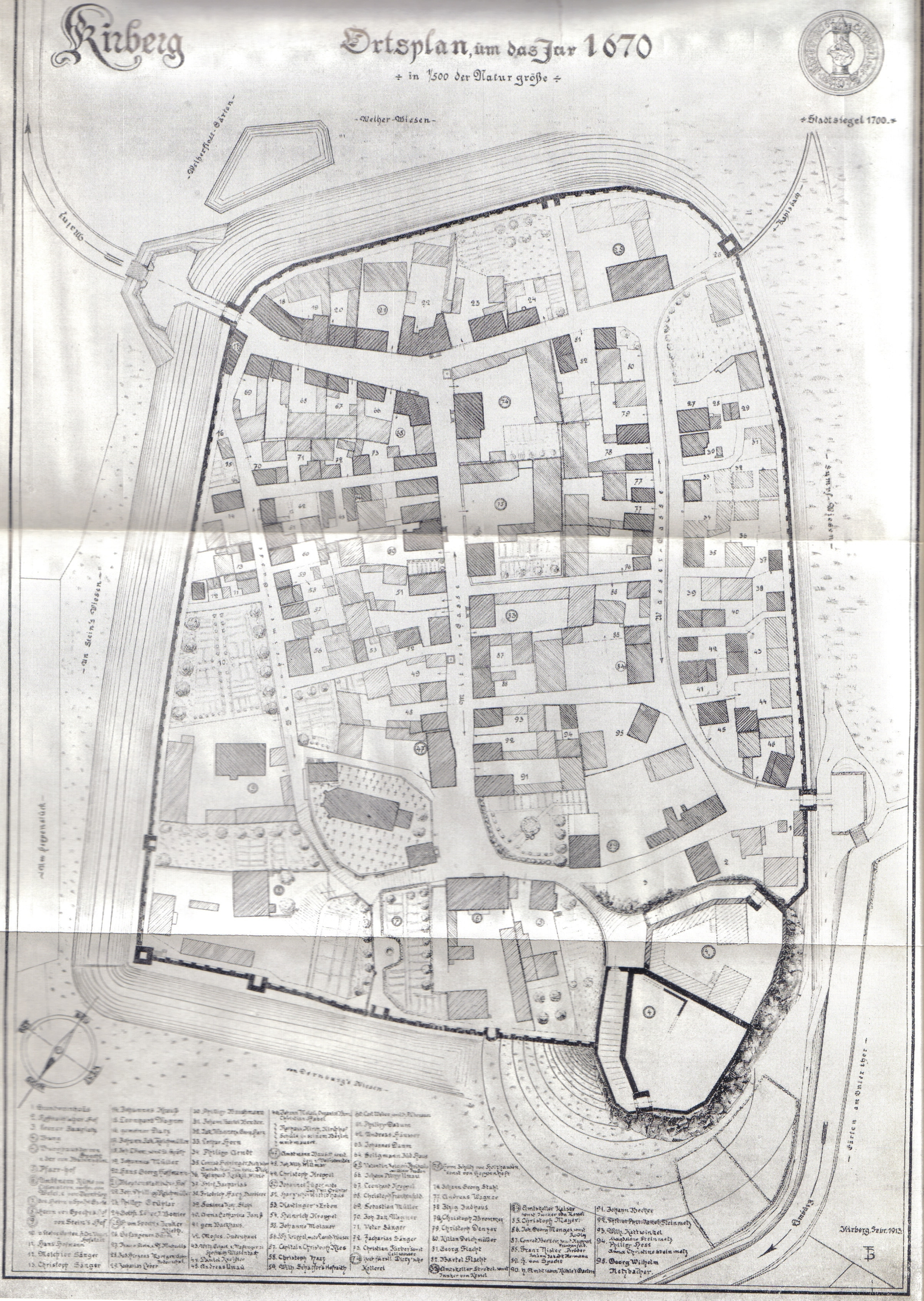 Karte von Kirberg, Hessen, von 1670